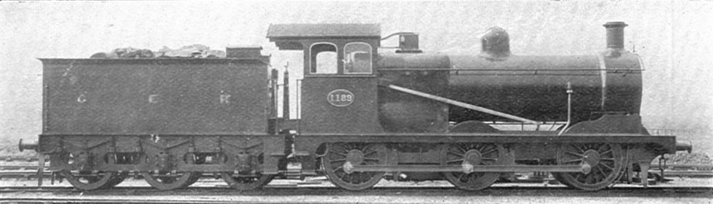 Great Eastern Railway F48 class / LNER J16 class Note that although the class was generally fitted with round-topped fireboxes, this locomotive Nº 1189 was fitted with an experimental Belpaire firebox, as would later be used for the following G58 class.